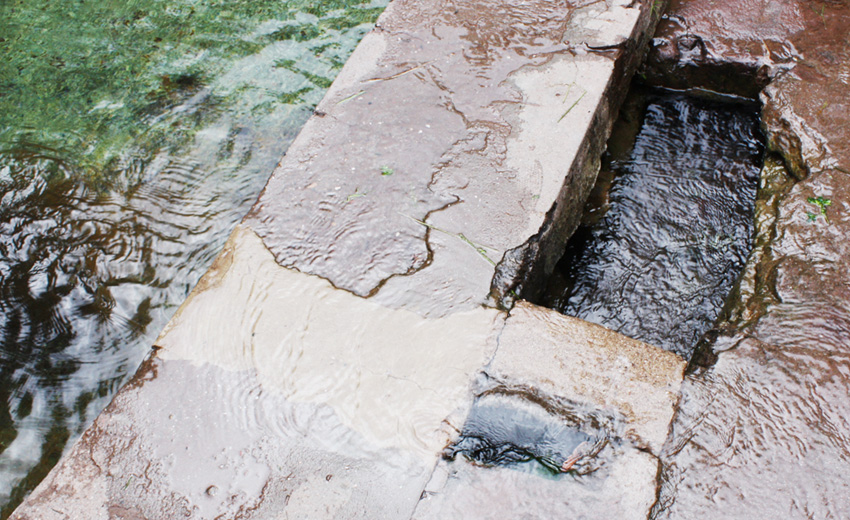 Spring at the place of Pilgrimage of the „Señor de Huanca“ in Calca, Peru